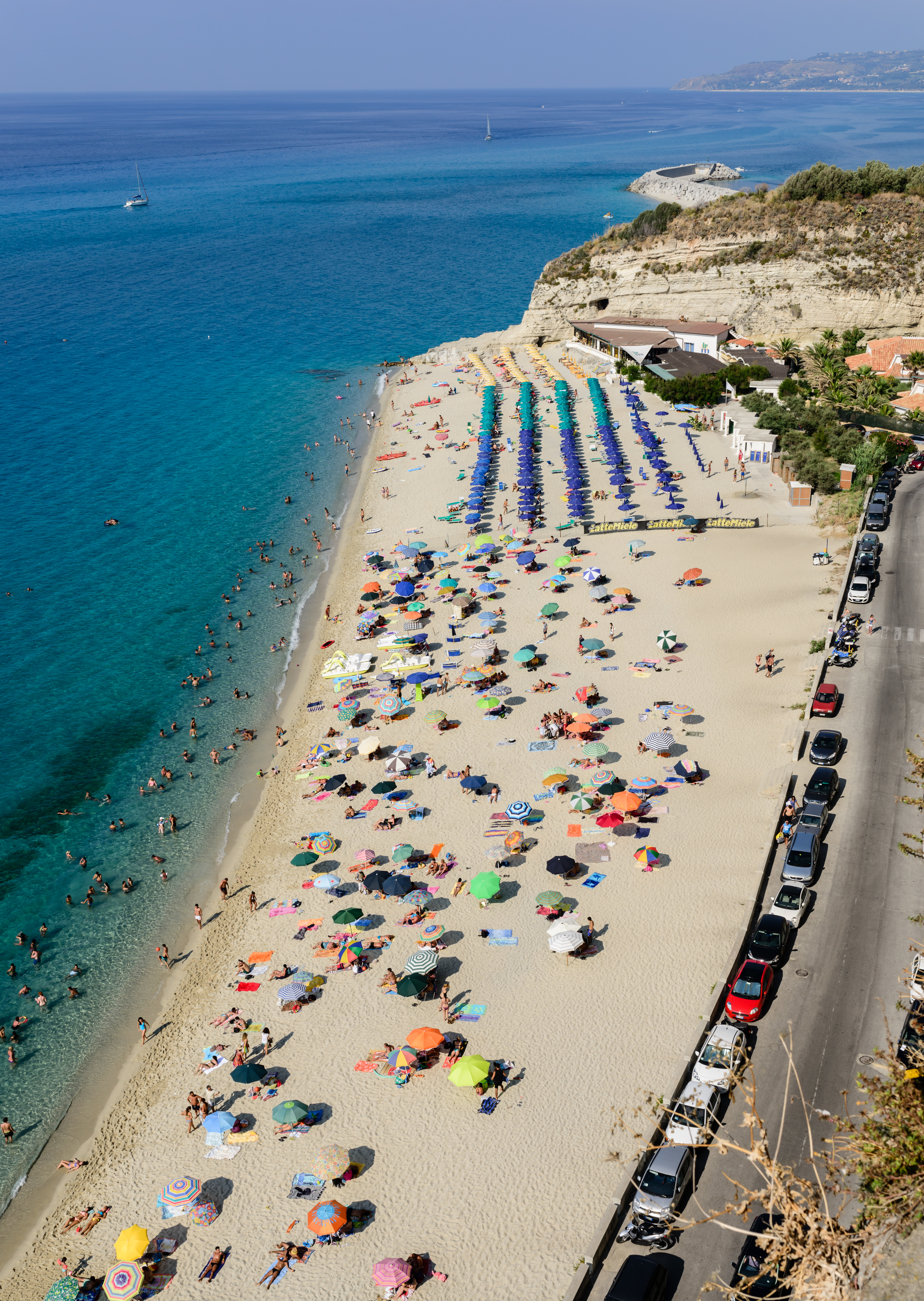 Tropea beach, Calabria, Italy.